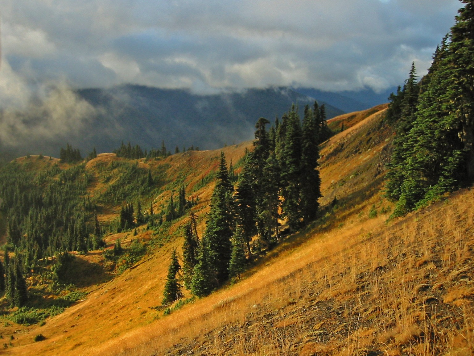 Hurricane Ridge Description: Coast Range Subalpine Fir groves in meadow. Abies lasiocarpa Viewpoint location: About 0.1 km north of Point 5471' near the Klahhane Ridge Trail/Meadow Loop Trails junction and close to the Hurricane Ridge Visitor Center in Olympic National Park, Washington, USA. Viewpoint elevation: 5400' View direction: South southeast Camera: Canon PowerShot S110 Photographer: Walter Siegmund ©2005 Walter Siegmund